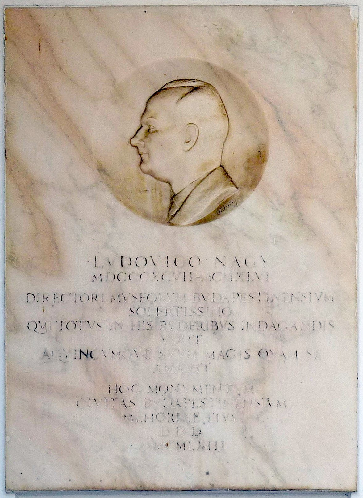 Commemorative plaque to Mr. Lajos Nagy (1897-1946) Hungarian archaeologist, art historian and museum professional, director of the Aquincum Museum. The marble portrait in relief carved by Mr. Pál Pátzay in 1964 is affixed to the wall of the old main building of the Museum. (Budapest, District III, Szentendrei Avenue Nr 135-139)